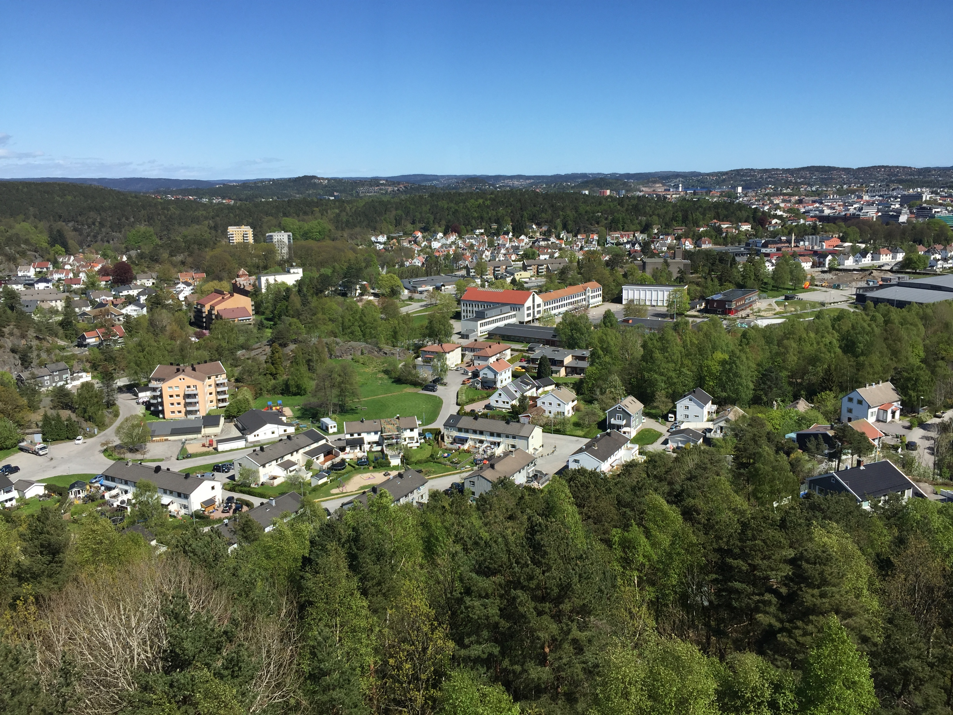 Grim, Kristiansand